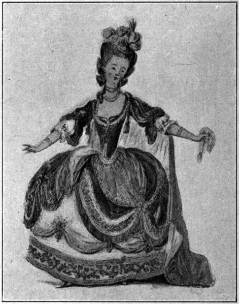 The costume of Chlytemnestra, as worn by Elisabet Olin. Picture published in Volume 1 (of 8) of Nils Personne’s history of Swedish theatre.